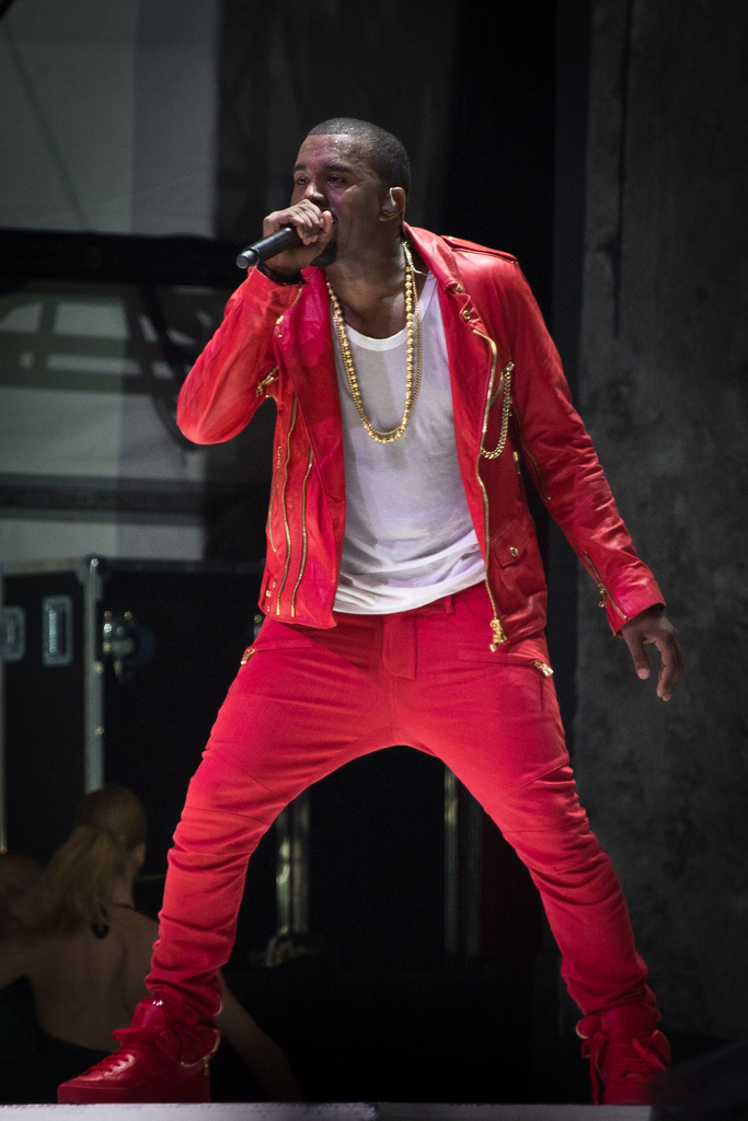 Kanye West performing at The Big Chill Festival